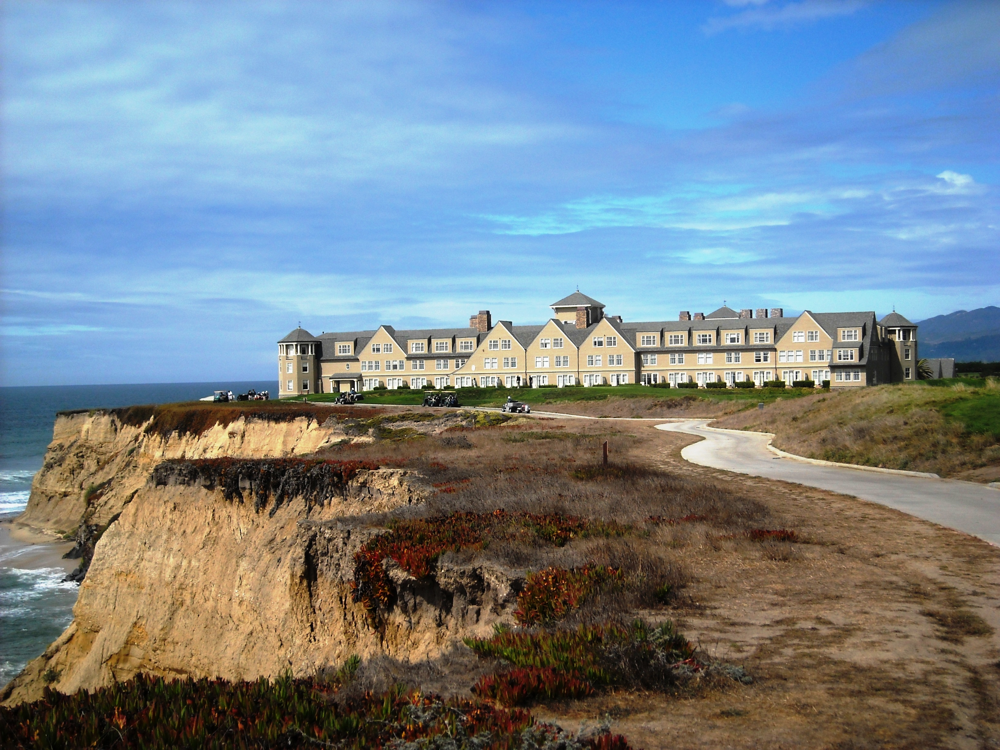 Ritz-Carlton in Half Moon Bay, California